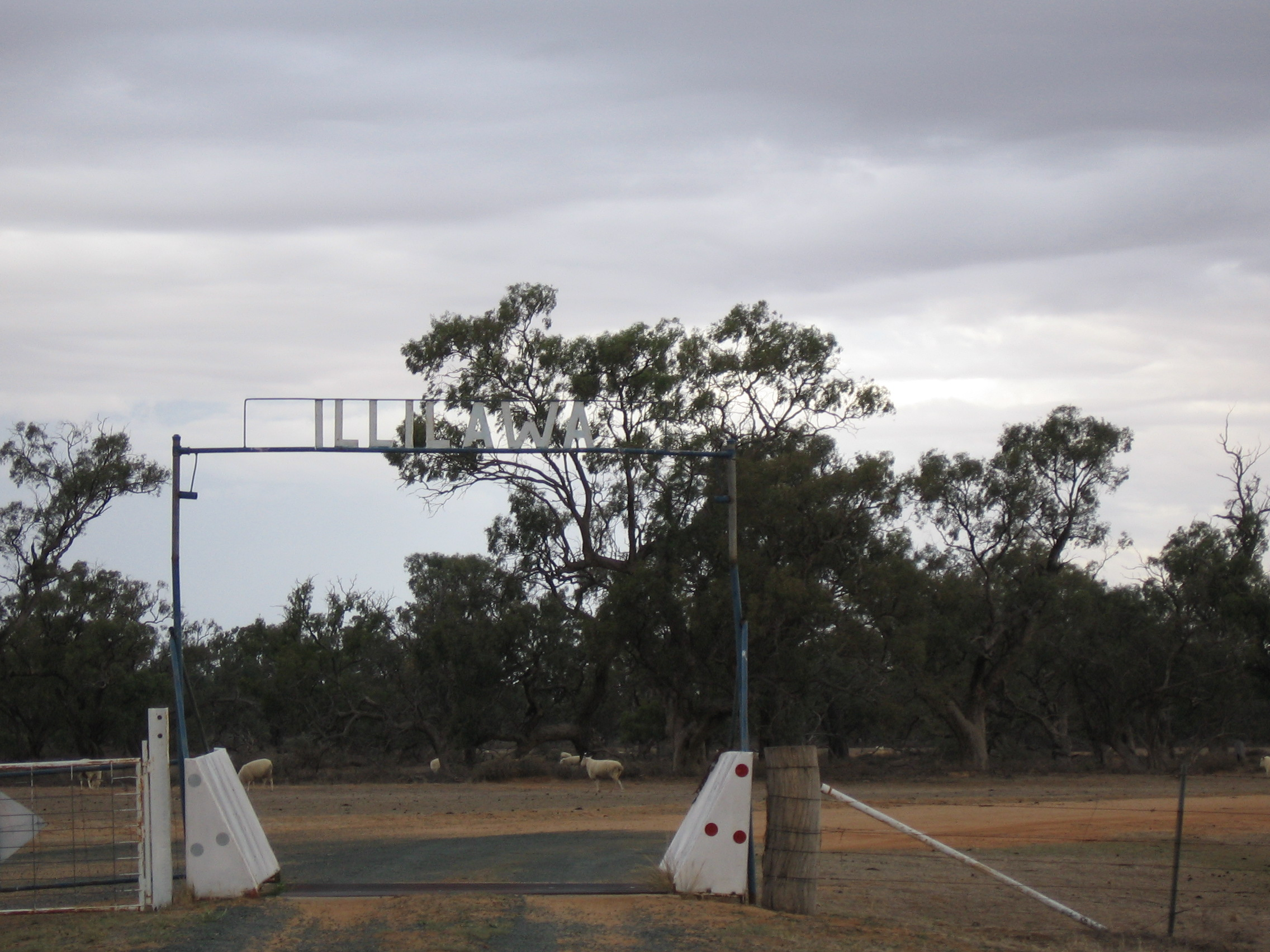 Entry to Illilawa station, near the site of the former train station at Illilliwa, New South Wales